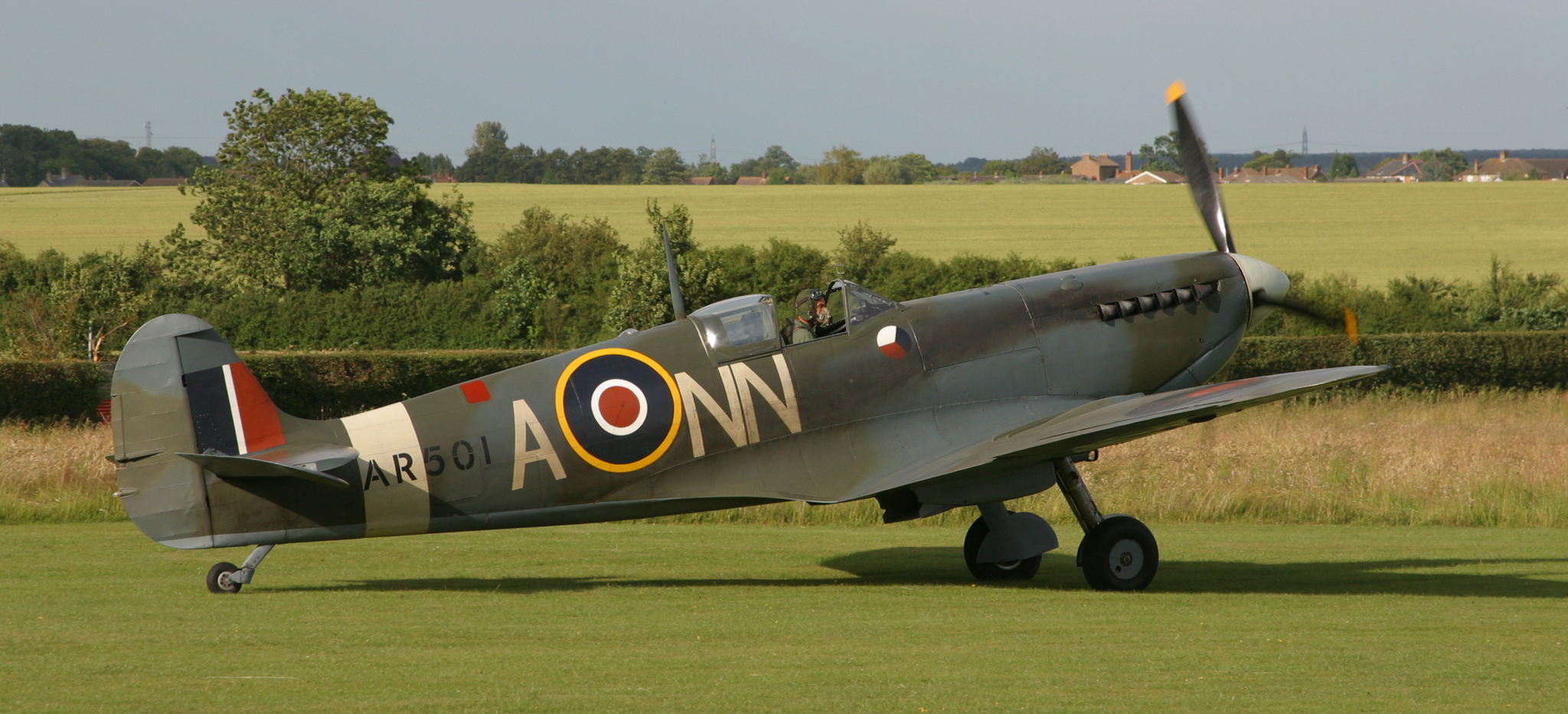 Supermarine Spitfire, Shuttleworth, 2004